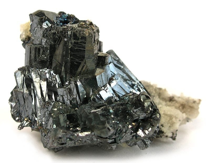 Pyrargyrite Locality: Fresnillo de Gonzalez Echeverria (Fresnillo), Municipio de Fresnillo, Zacatecas, Mexico (Locality at ) Size: 3.8 x 2.8 x 2.2 cm. A fine, brilliantly metallic-lustrous specimen of pyrargyrite on minor matrix, from a 2006 find at this important locality. When backlit, it glows ruby red. From the Judas Shaft.